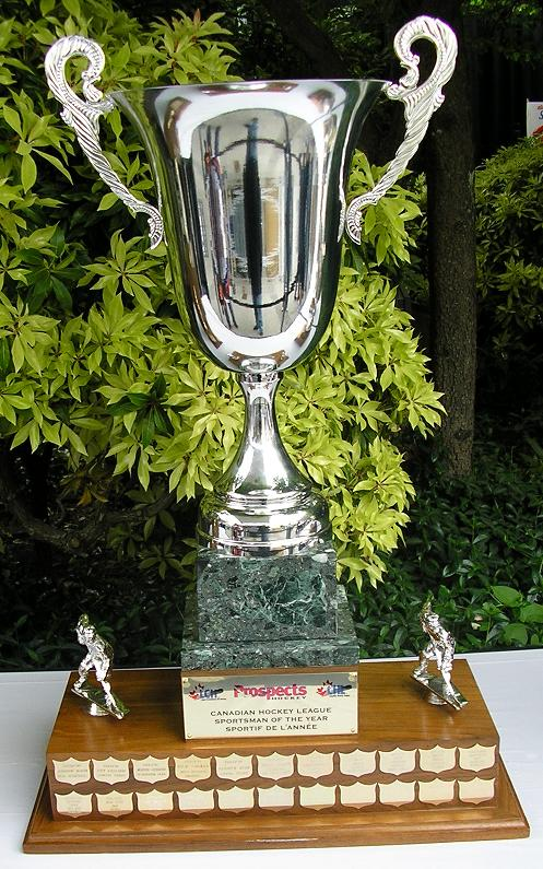 Photo I took of the CHL Sportsman of the Year award at the en:2007 Memorial Cup in Vancouver.